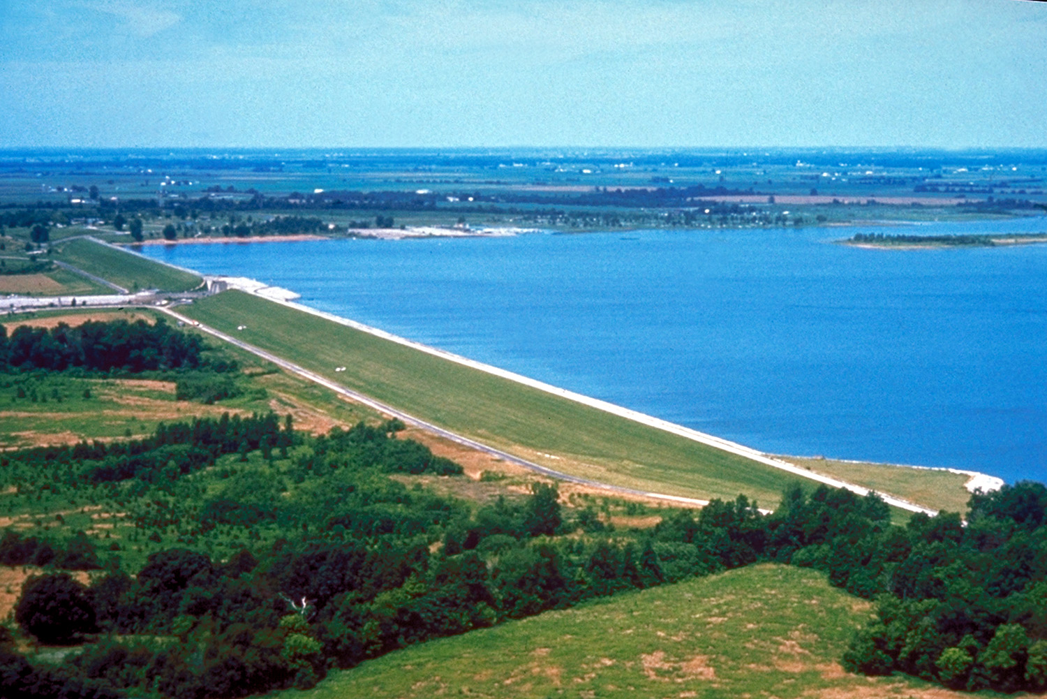 Carlyle Dam, impounding Carlyle Lake on the Kaskaskia River in Clinton County, Illinois, USA.